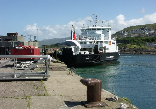 MV Coruisk, the Armadale-Mallaig ferry arriving at Mallaig.